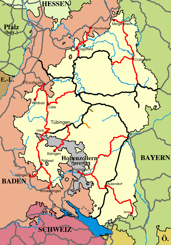 Railroad network of Württemberg as of 1874. Black/beige: state/private railroads built until 1864; red/orange: state/private railroads built 1865-1874; grey: railroads outside of Württemberg; dotted: planned by not (yet) implemented railroad around Lake Constance.